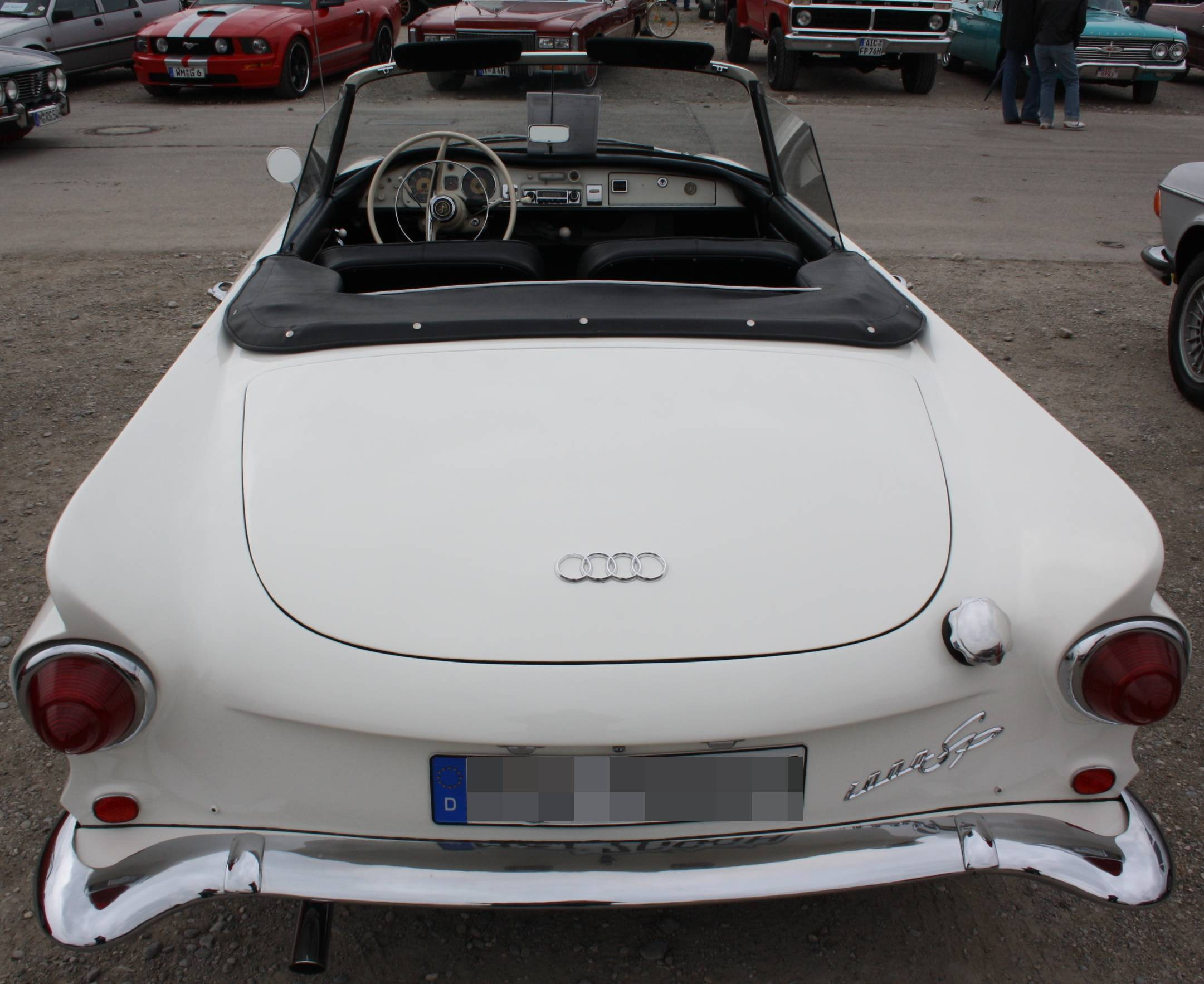 DKW 1000 SP - Year 1963